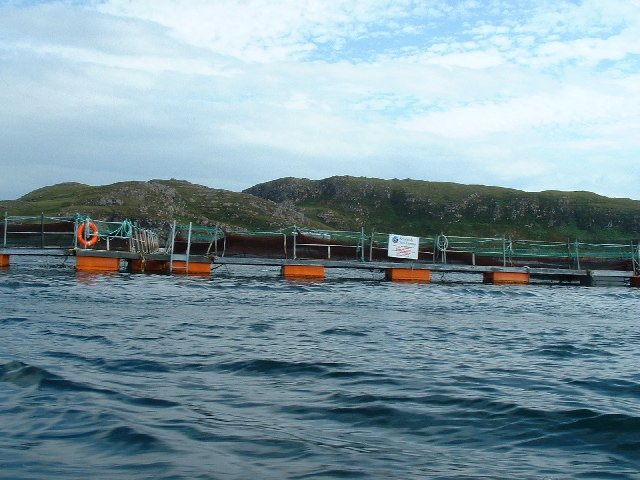 Summer Isles Fish Farm. One of the many fish farms anchored off the west coast of Scotland, in this case in the lee of Eilean Fada Mor